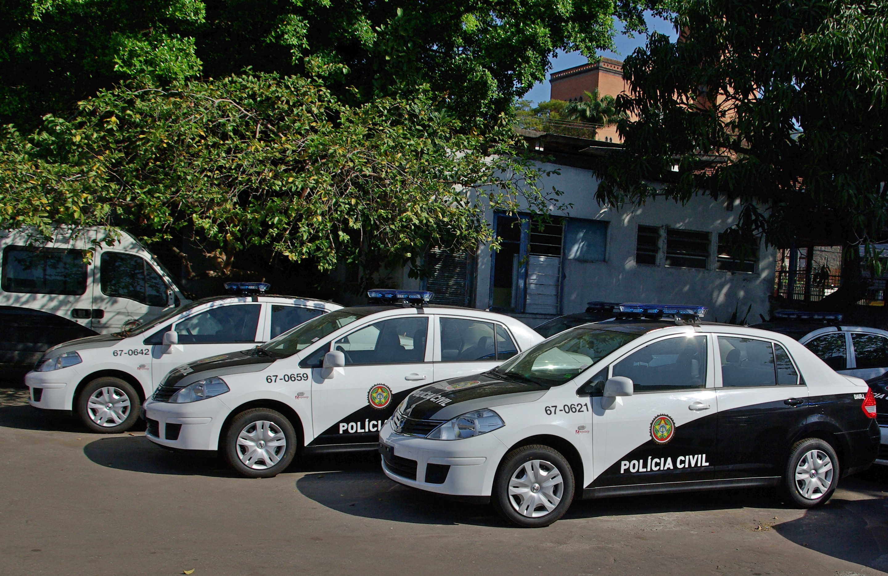 Police car - Rio de Janeiro Civil Police - Brazil